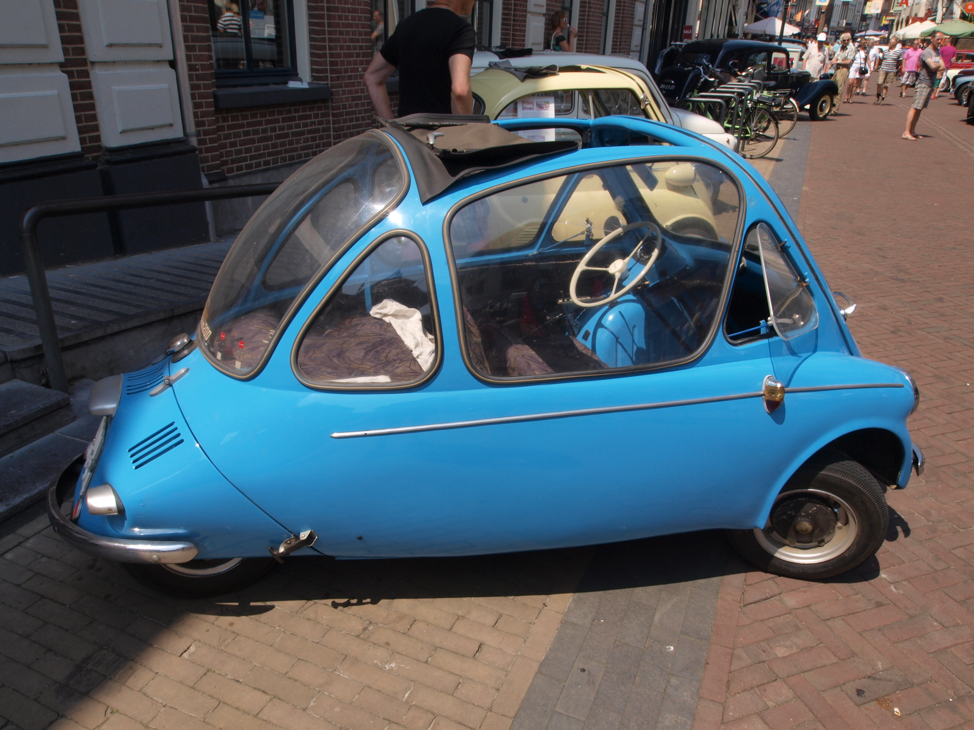 Photographed at Kampen, The Netherlands. OLYMPUS DIGITAL CAMERA